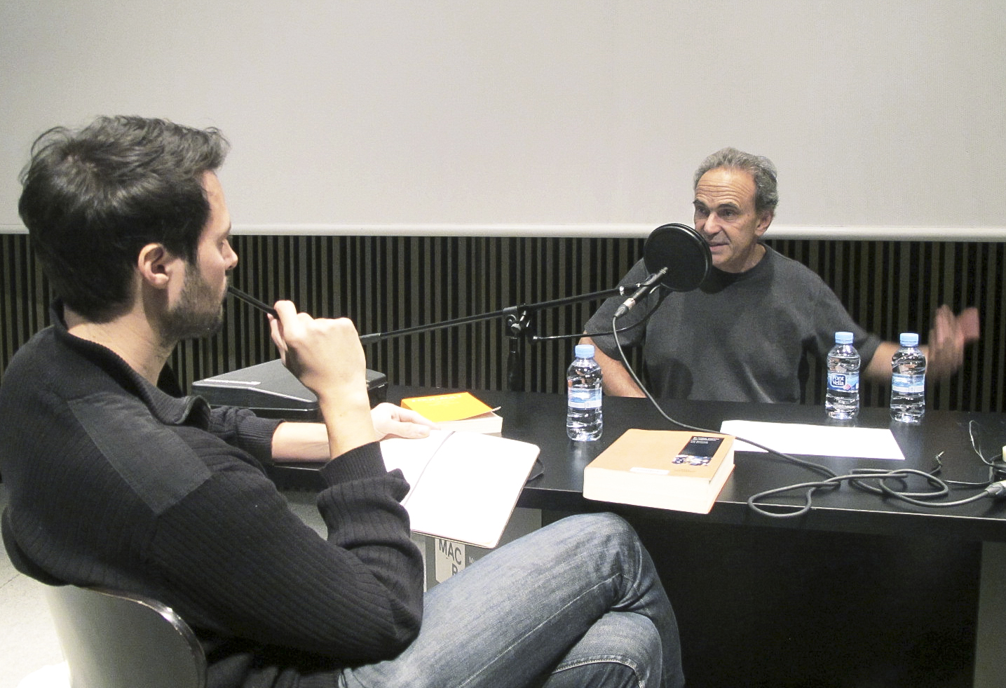 rwm.macba.cat/ca/sonia Foto: MACBA 2014